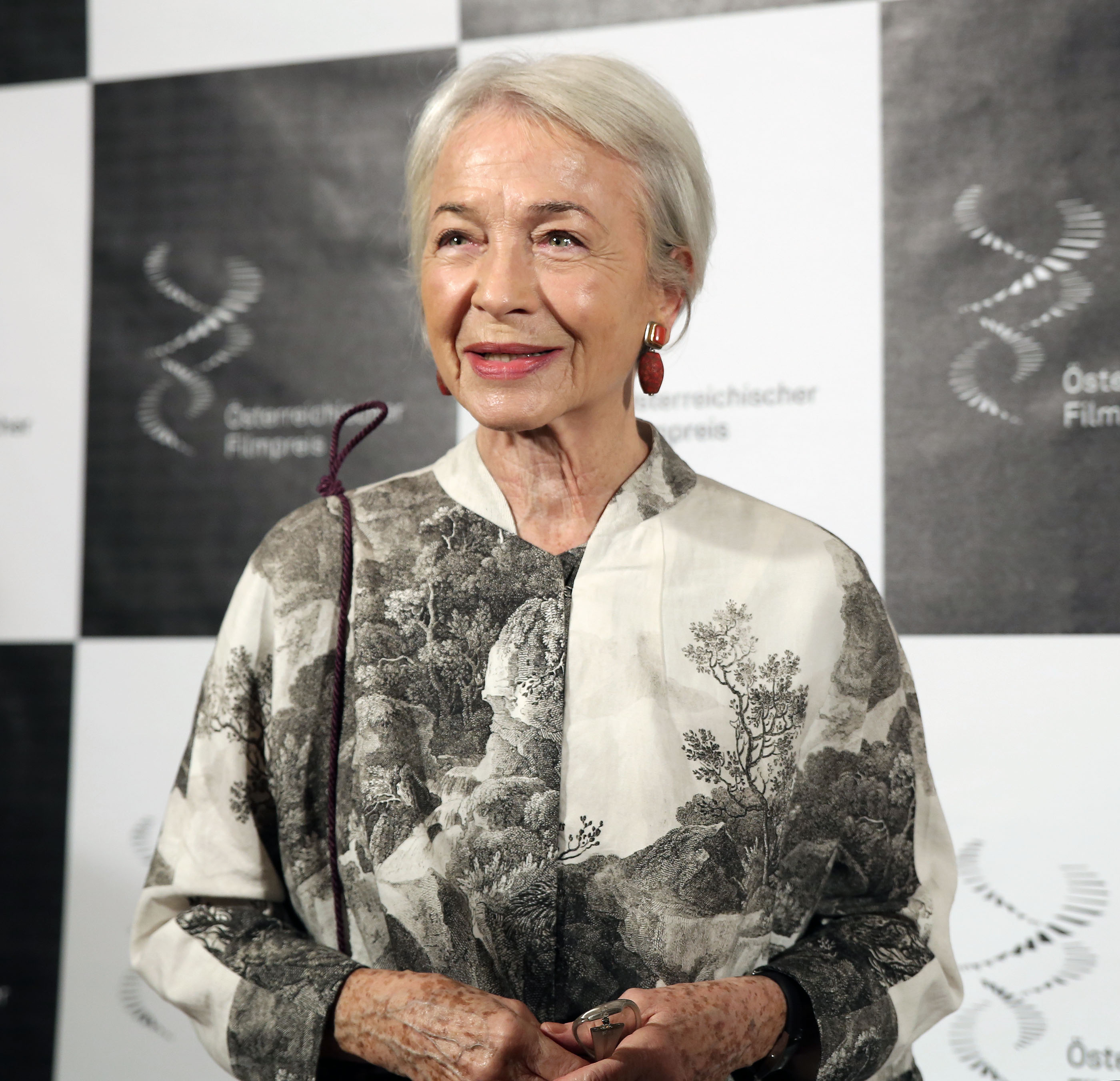 Christine Ostermayer, Austrian Film Awards 2013 (Vienna).